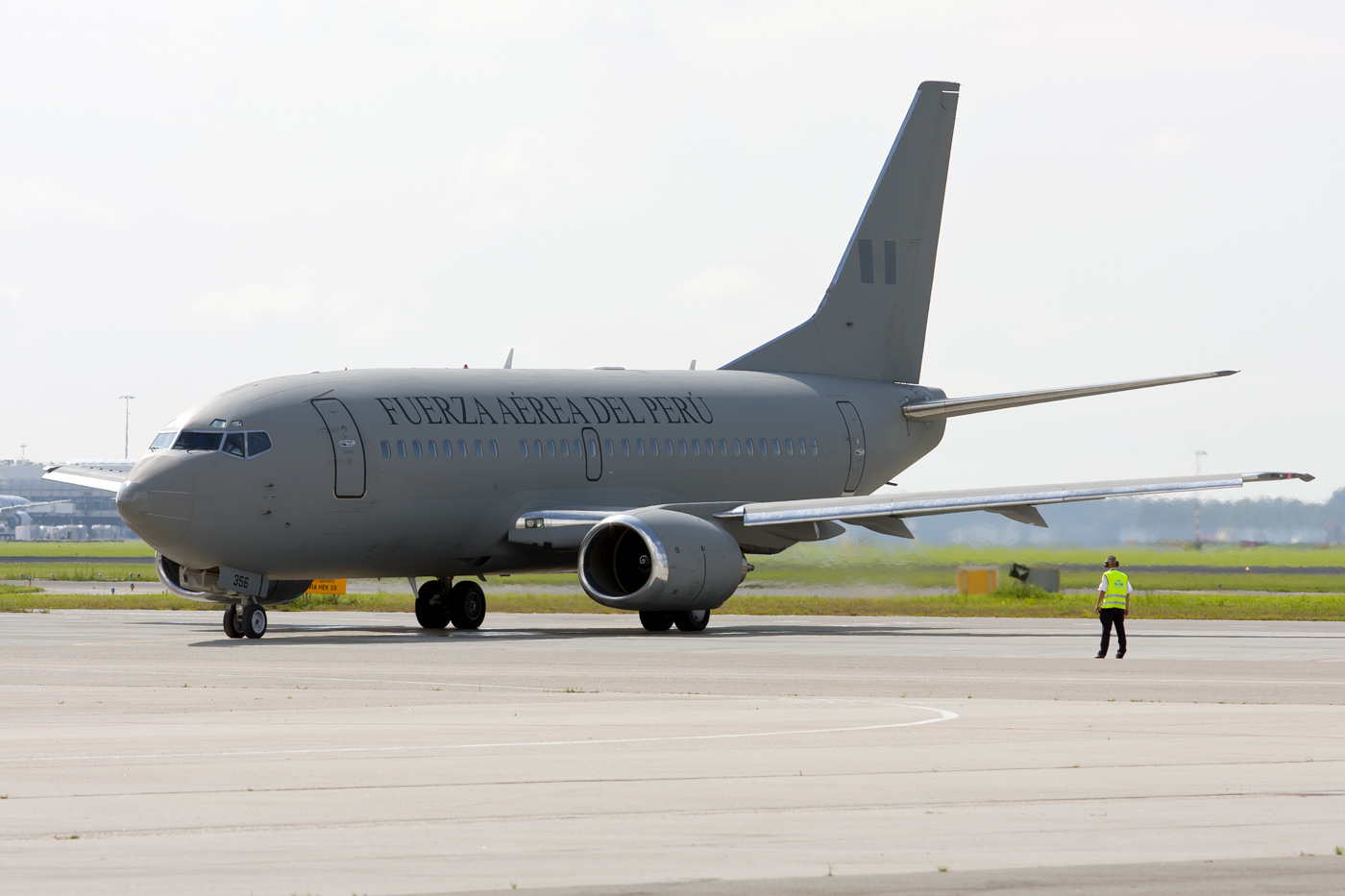 Boeing 737-528 '356' is operated by Escuadrón de Transporte 844 from Lima. Schiphol 14 July 2014